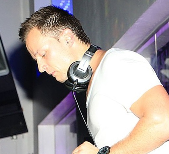 The Belgian DJ Yves V. (Yves Van Geertsom), during show in Brasília, Brazil.